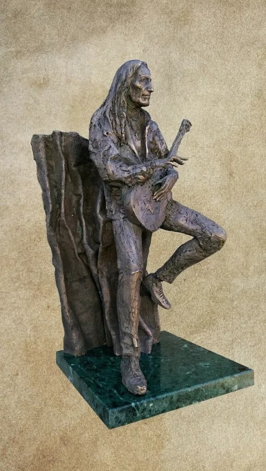 Ken Hensley sculpture by Giennadij Jerszow. bronze 2014